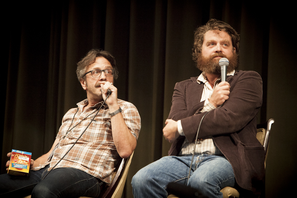 Marc Maron and Zach Galifianakis participating in a Doug Loves Movies podcast at the 2012 LA Pod Fest